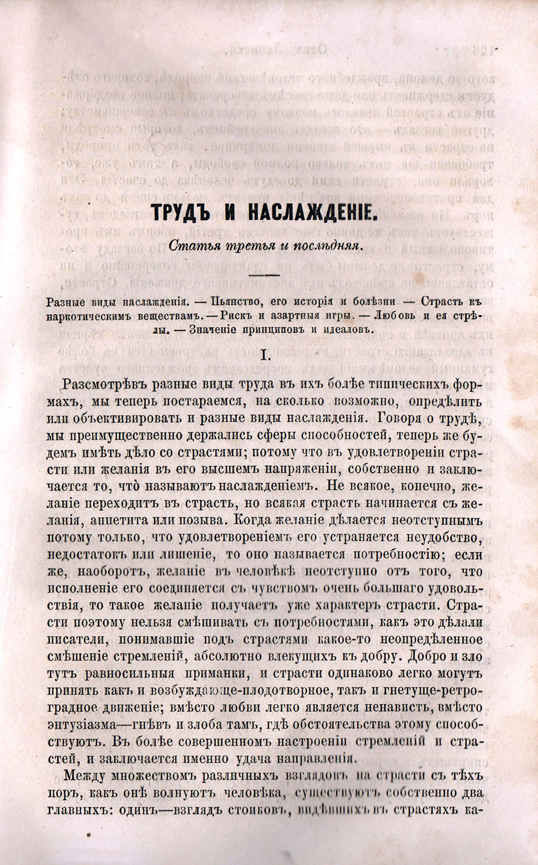 Article by Nikolay Ivanovich Solovyov "A work and delight" from "Otechestvennye zapiski", 1866, july, Nb. 13.